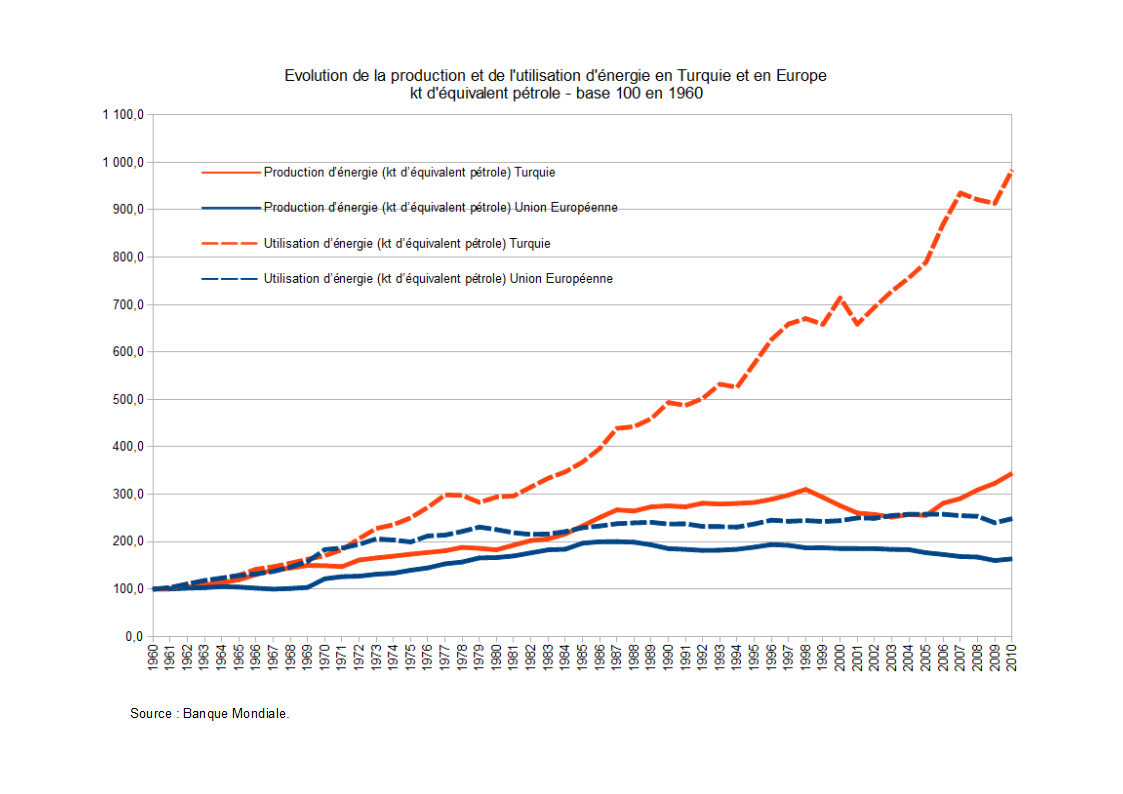 Evolution de la production et de l'utilisation d'énergie en Turquie et en Europe - Source: Banque Mondiale